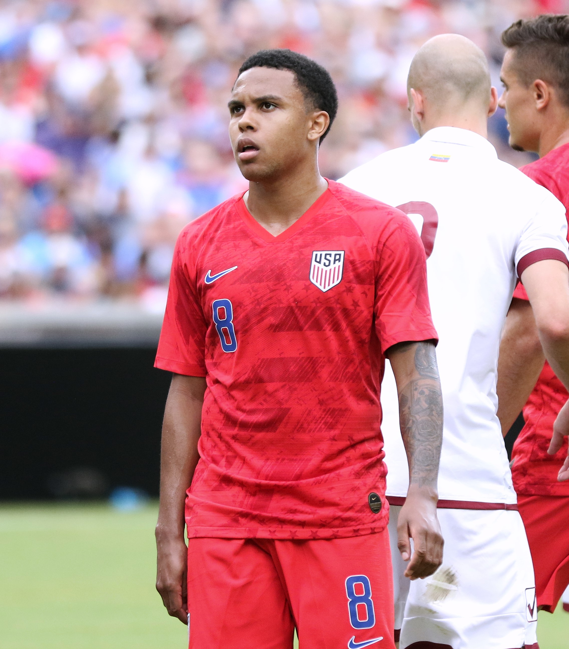 Weston McKennie representing the United States on June 9, 2019.